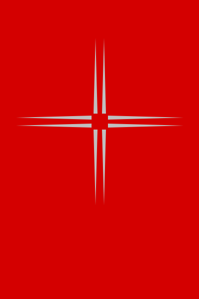 Flag of the Naziesque State in the System of a Down Music Video "BYOB".